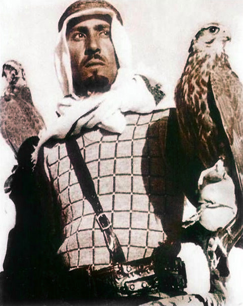 King Abdullah in his youth with two saker falcons